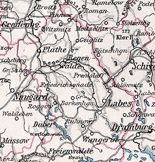 Detail from a map of Pomerania.